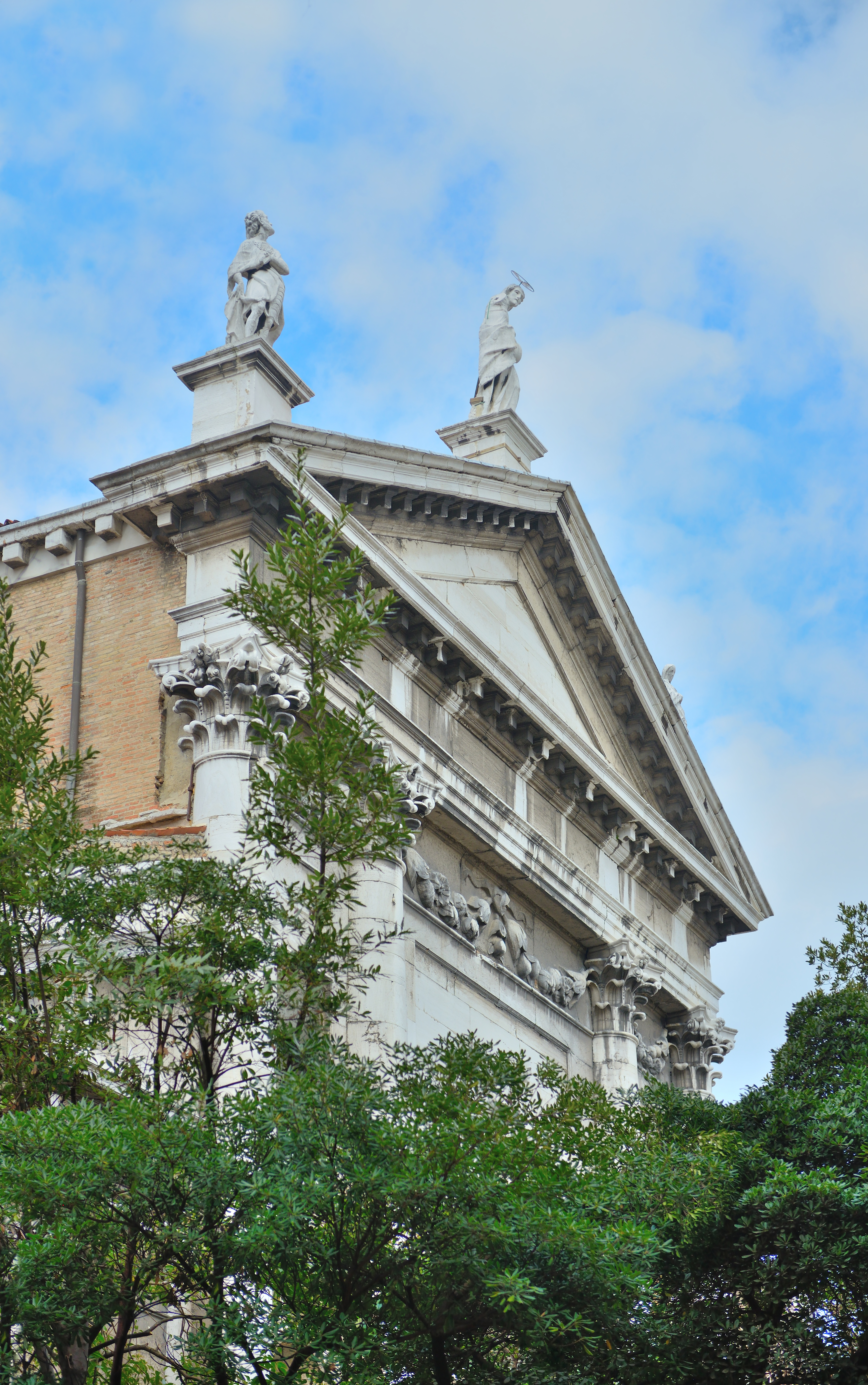 Tympanum of San Vidal church in Venice